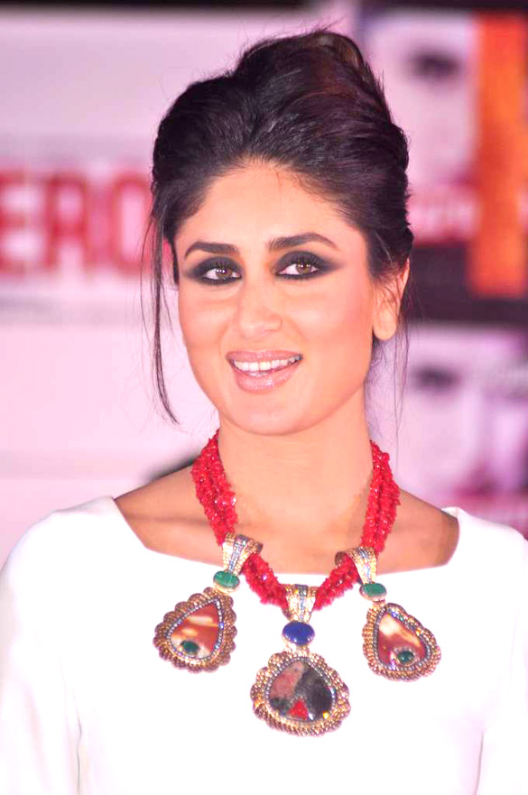 Indian actress Kareena Kapoor at the promotional launch of Jealous 21 collection for her film Heroine (2012)